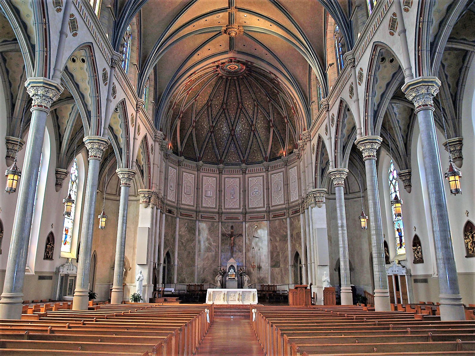 The Cathedral of Saint Paul in Birmingham, Alabama, listed on the National Register of Historic Places.